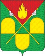 Coat of arms of Peschani (Tbilískaya Raion, Krasnodar Krai, Russia)